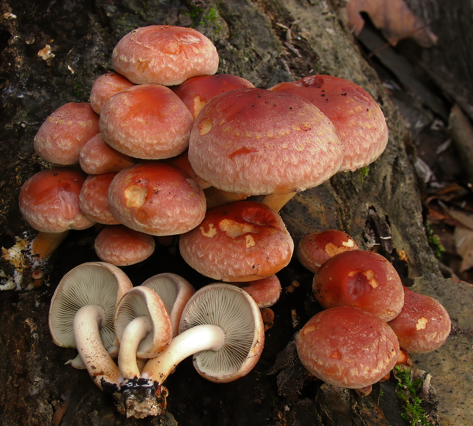 Hypholoma sublateritium (Schaeff.) Quél.